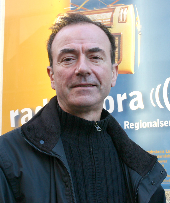 Hugh Cornwell, former singer and guitarist with The Stranglers, now solo artist, in 2006